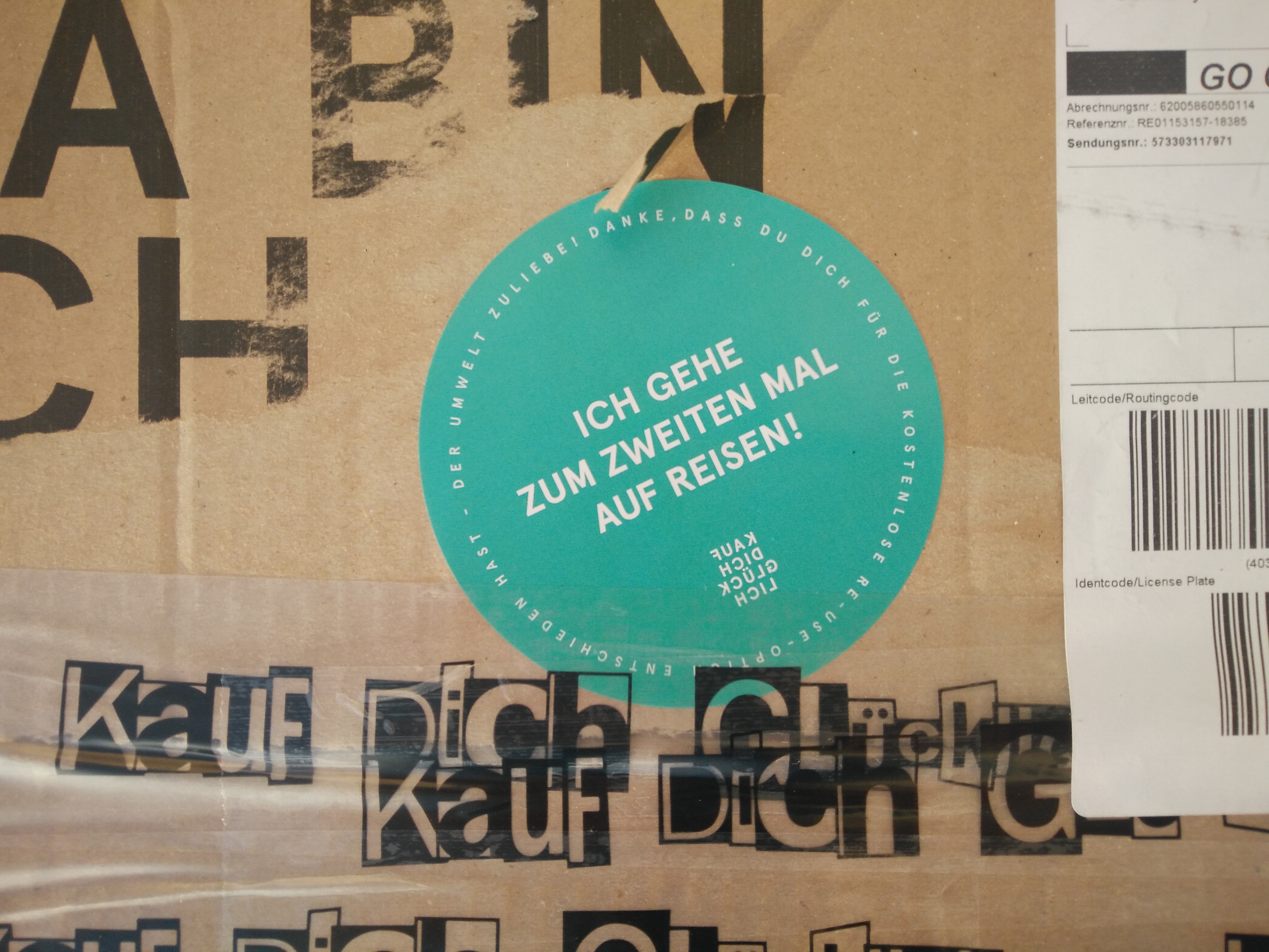 label to indecate reuse of a package